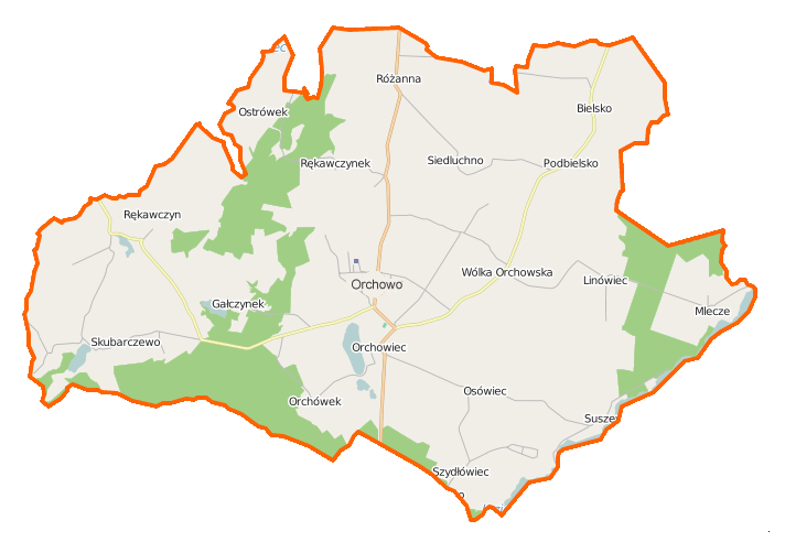 Map of Gmina Orchowo, Poland This map of Orchowo (gmina) was created from OpenStreetMap project data, collected by the community. This map may be incomplete, and may contain errors. Don't rely solely on it for navigation. Border coordinates52.560317.8984←↕→18.142752.4573